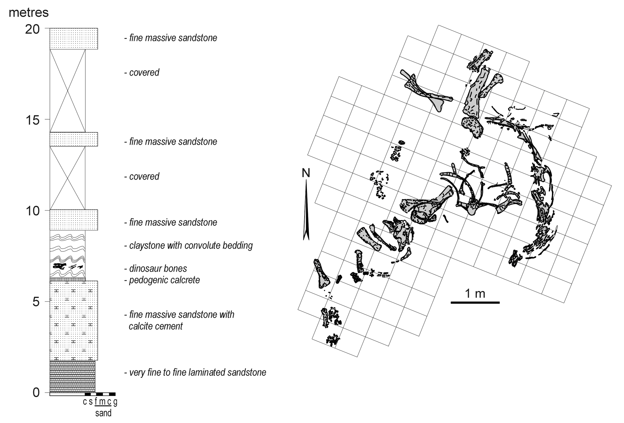 Original caption: "Columnar section and plan view of occurrence of fossil bones of Tapuiasaurus macedoi gen. n. sp. n."